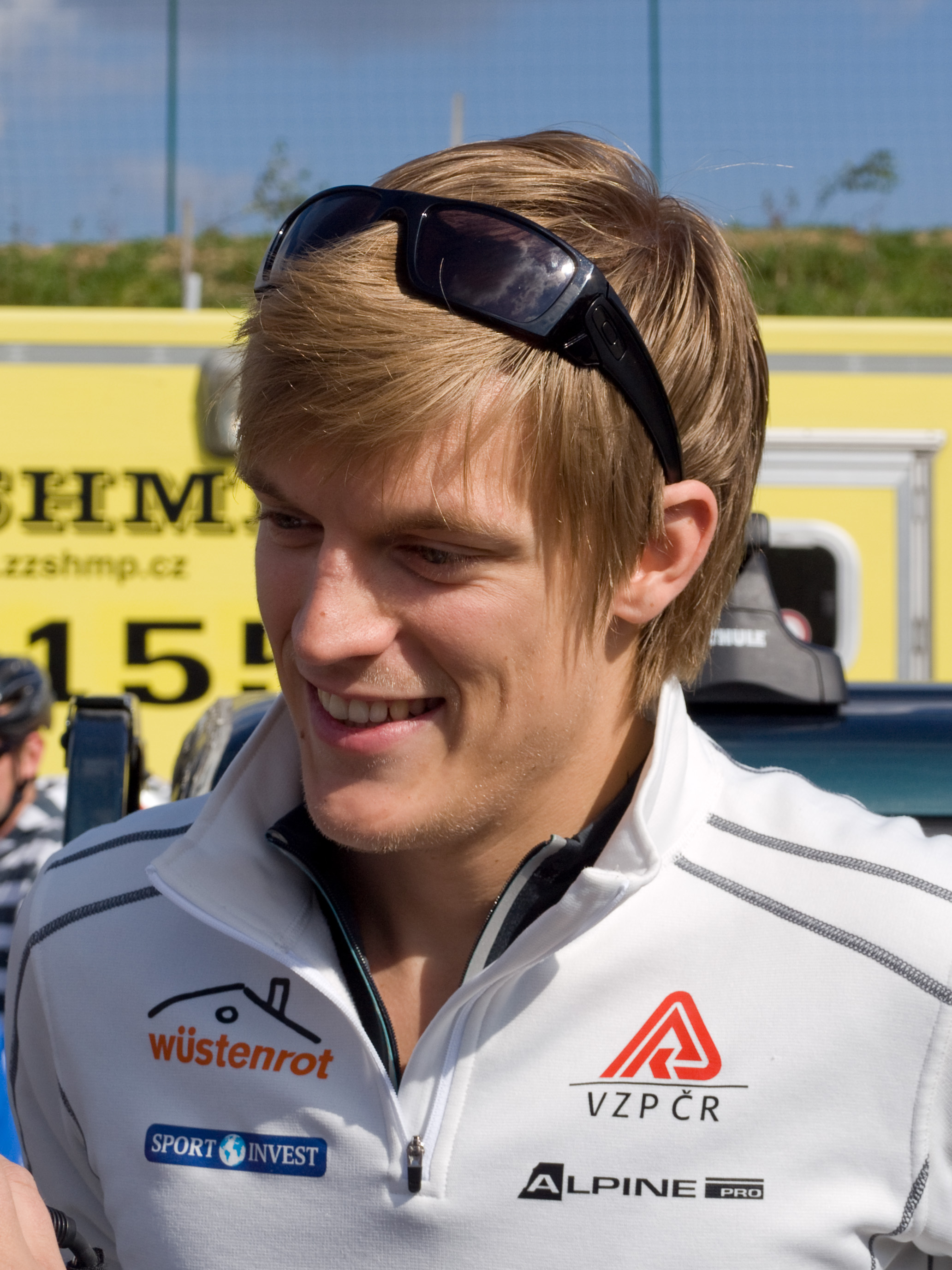 Czech figure skater Tomáš Verner at Open doors day of Prague expressway